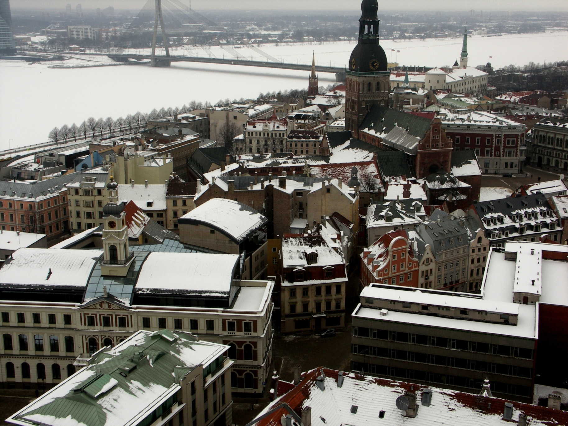 View from St. Peter's Church, Riga